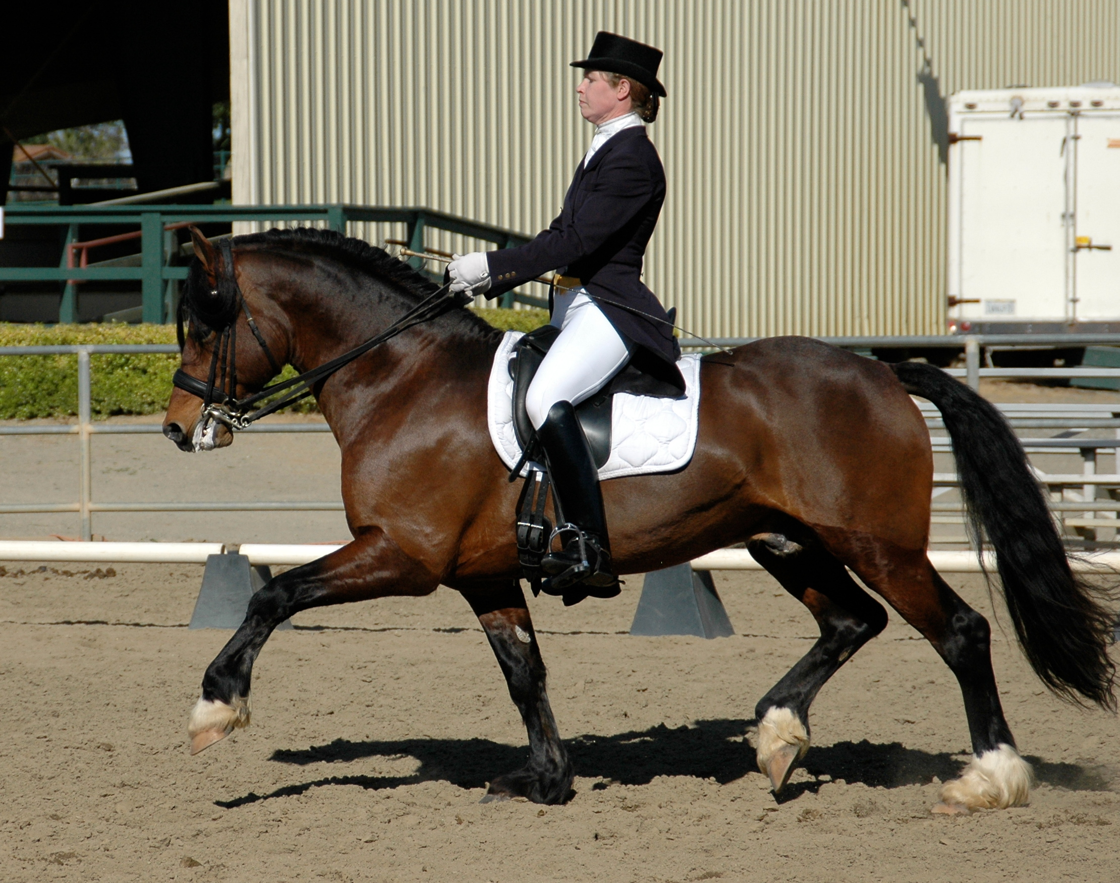 Welsh Cob "North Forks Cardi" performing dressage